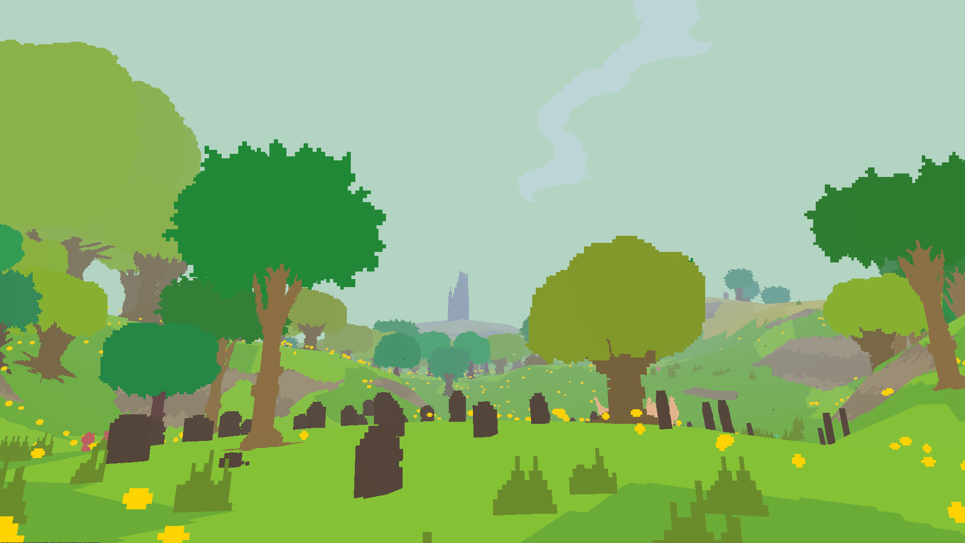 A memorial in video game Proteus.